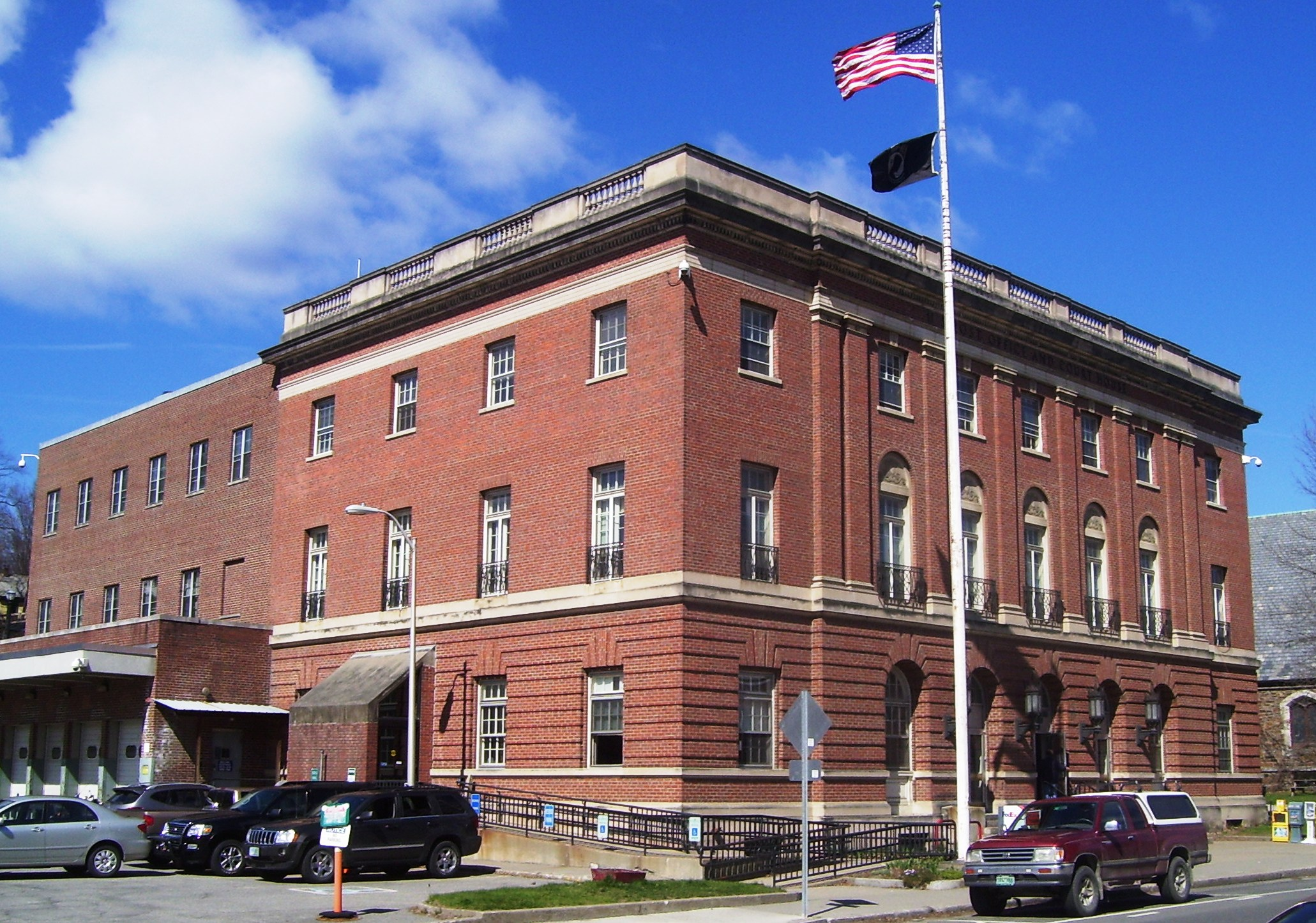 The Post Office and Court House on Main Street in Brattleboro, Vermont was built in 1916. Its south parking lot (seen in this image) was the site of the town's original Brooks Library. The building is located within the Brattleboro Downtown Historic District. (Source: "The Visitor's Guide to Brattleboro and the Vibrant Villages of Southern Vermont" (2010))